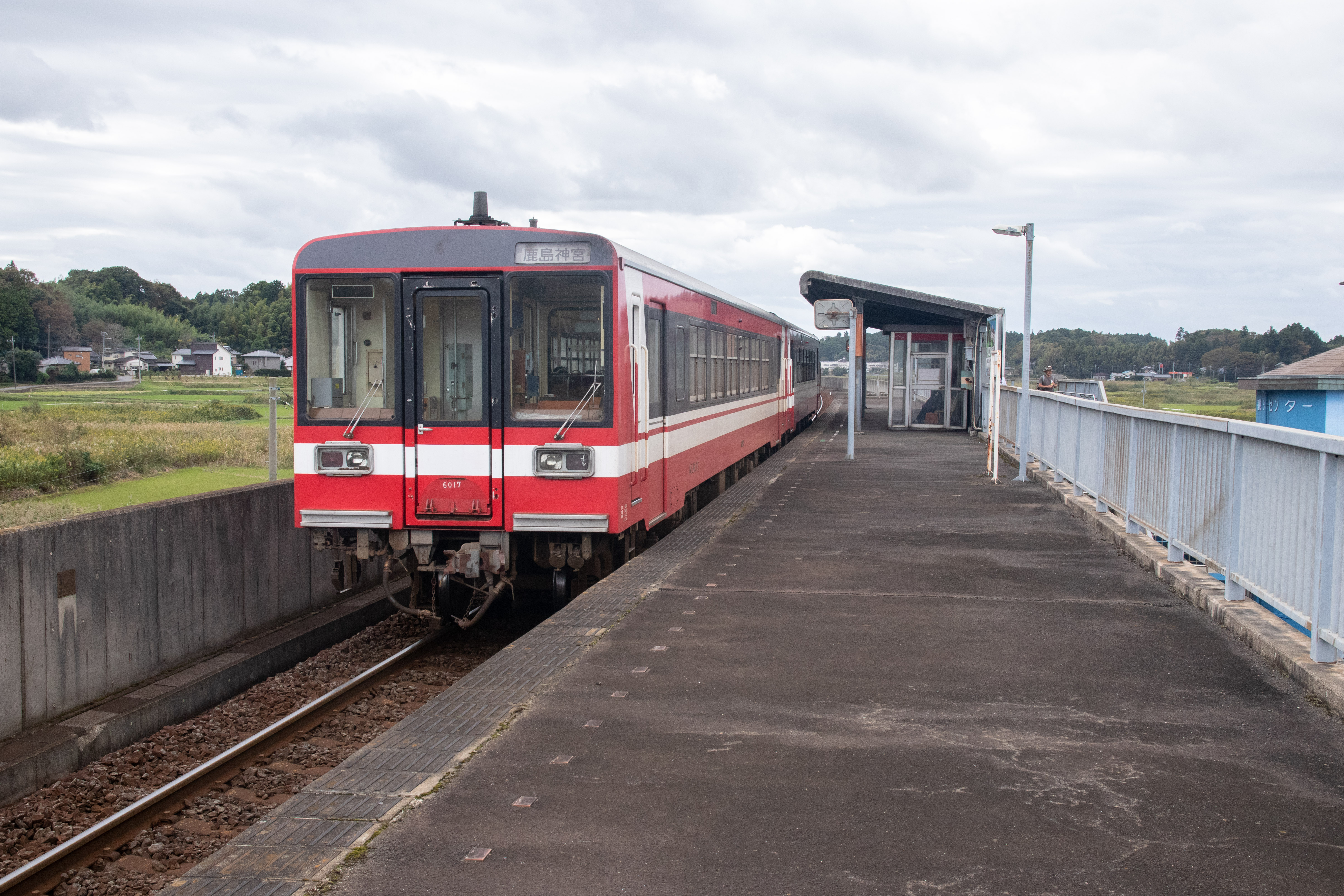 Hinuma Station in Hokota City, Ibaraki Prefecture, Japan Canon EOS 80D + Sigma 17-70mm F2.8-4 DC Macro OS HSM